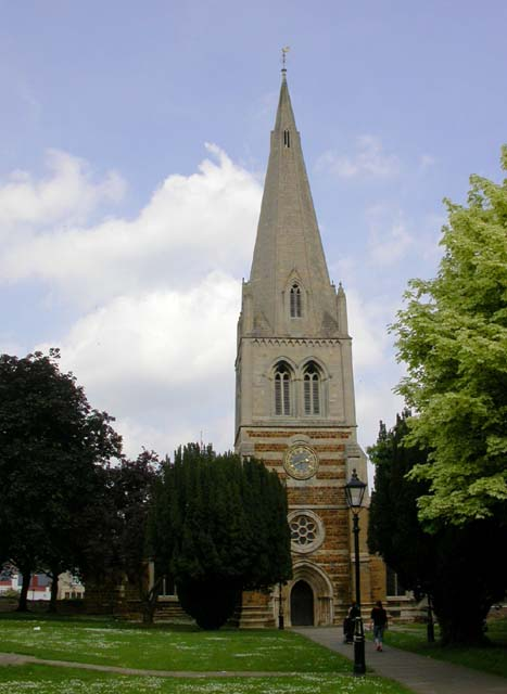 West tower and spire of All Hallows parish church, Wellingborough, Northamptonshire